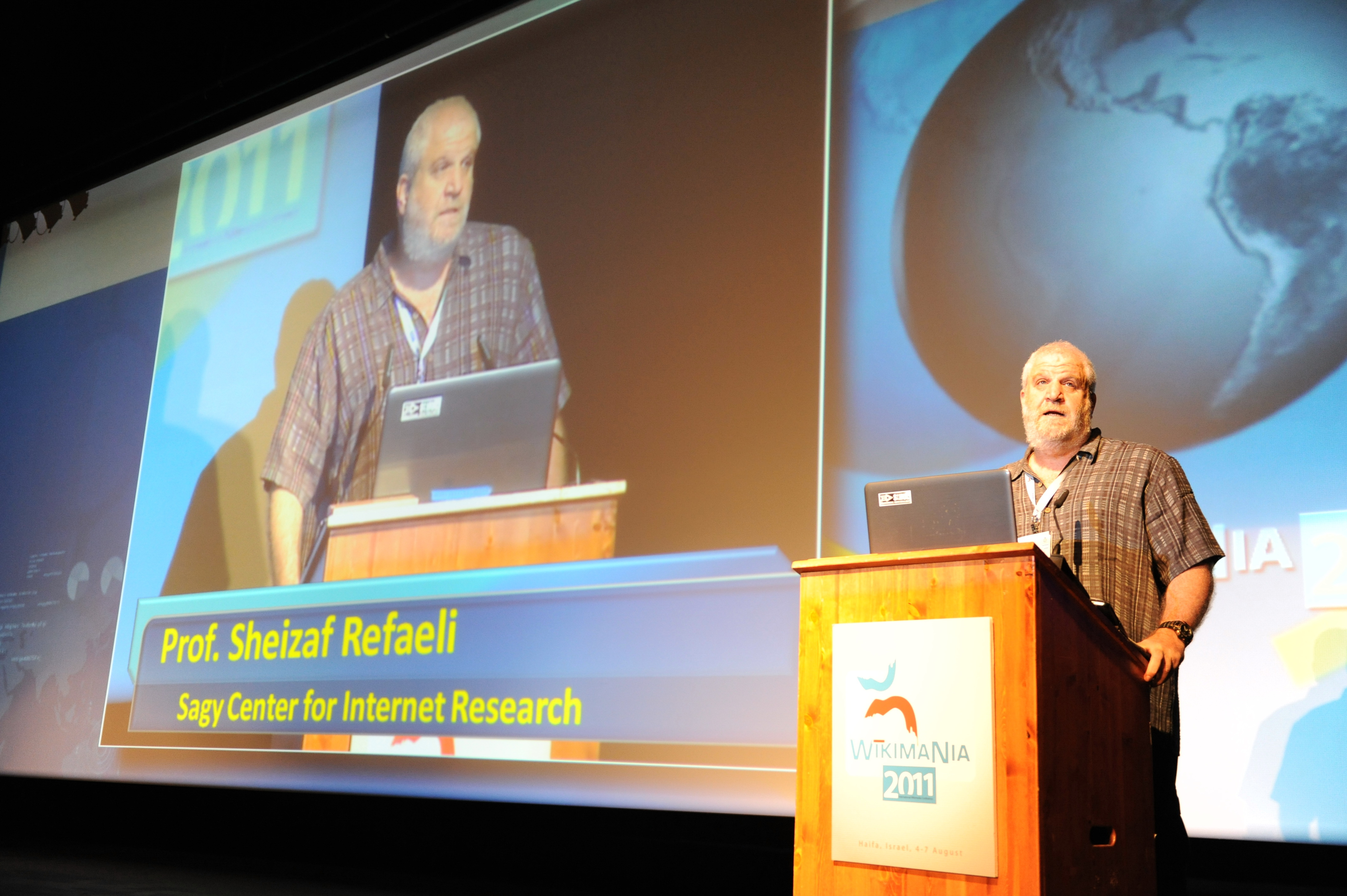 This picture has been taken by a Wikimania 2011 organization team photographer.